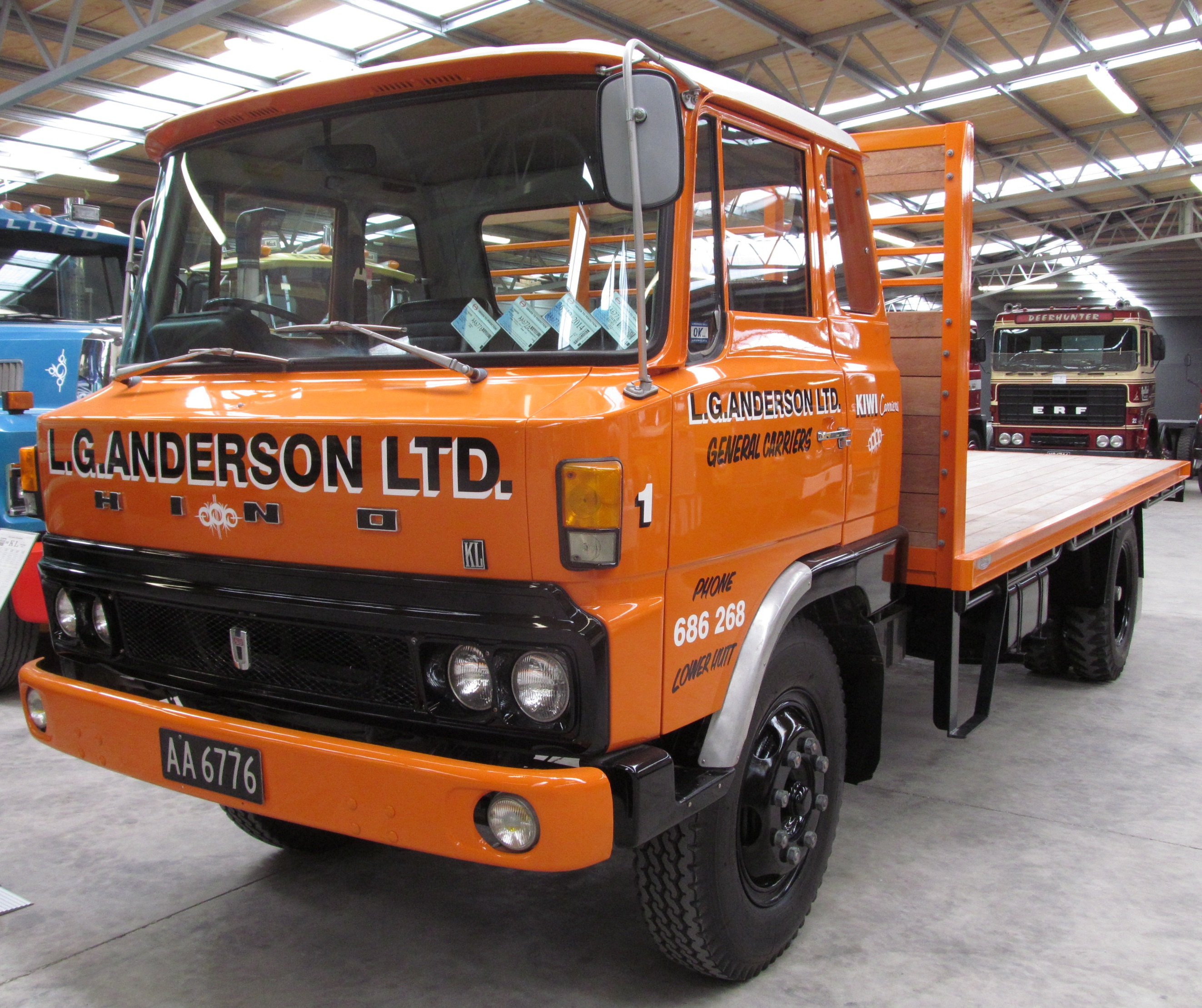 1975 Hino KL, also known as the Hino Ranger, in the Bill Richardson Transport Museum in Invercargill, New Zealand.